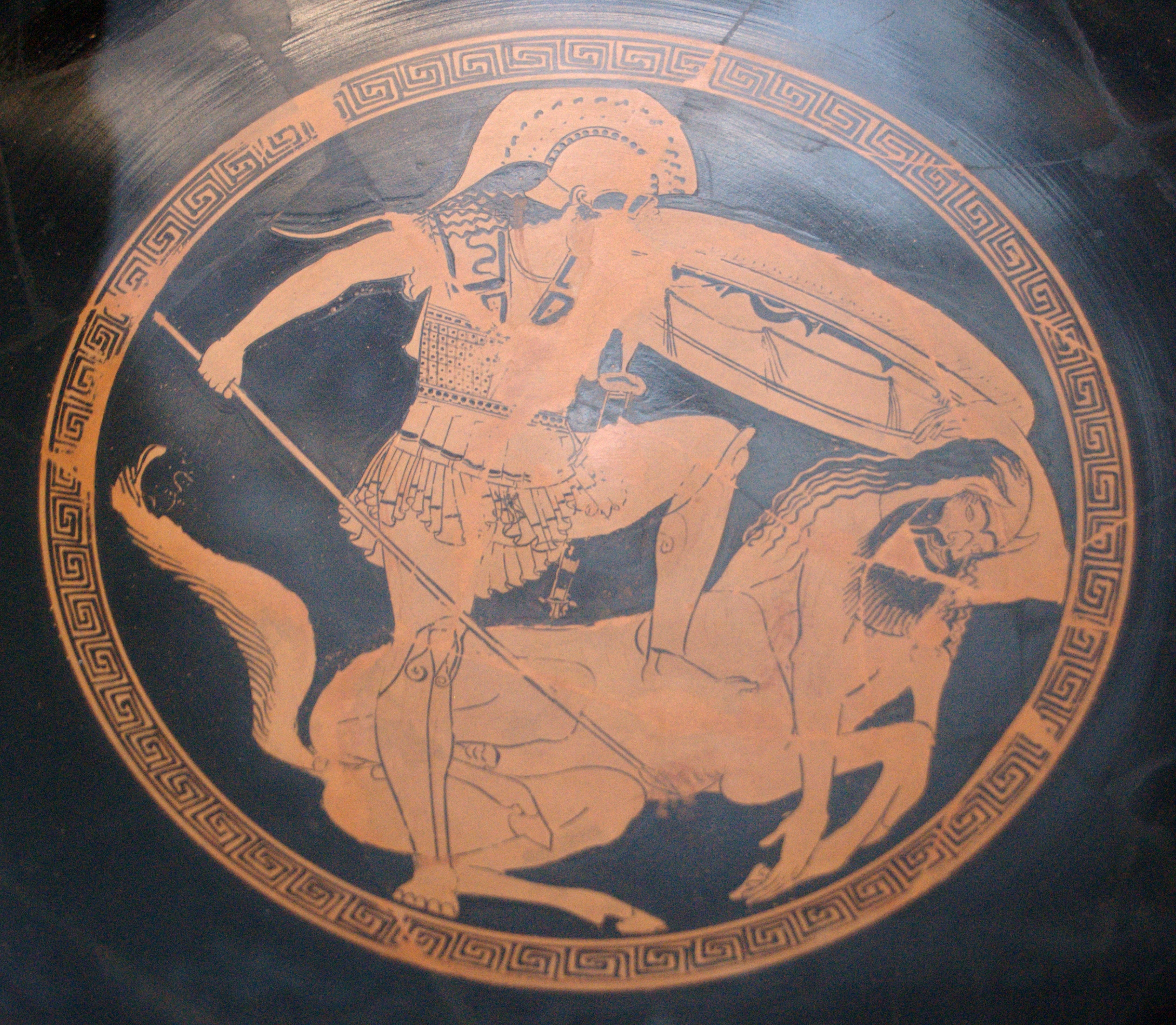 Centauromachy. Tondo of an Attic red-figure kylix.